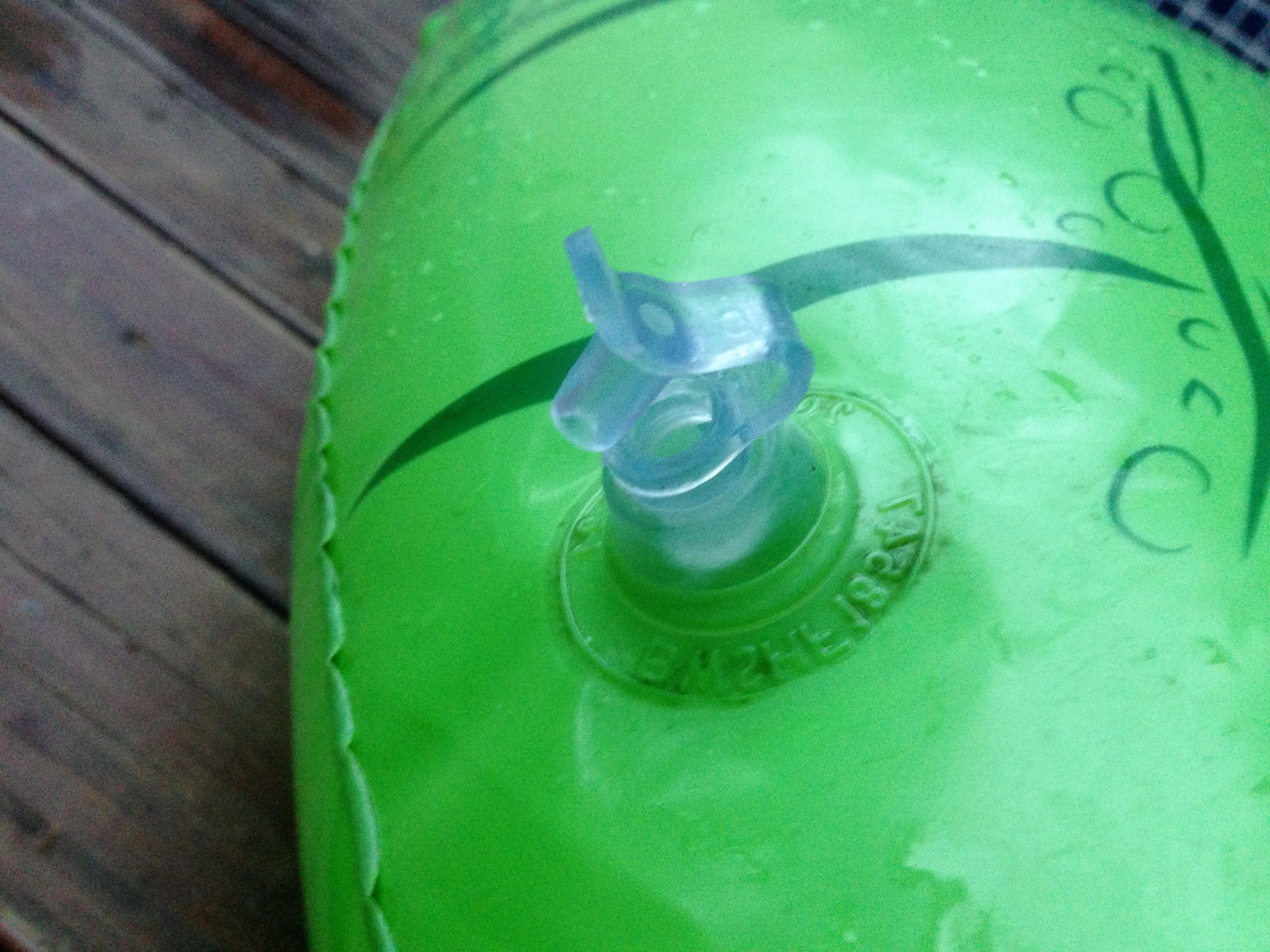 An close-up on an swim toy's inflation valve.